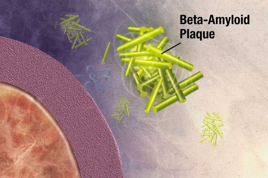 Enzymes act on the APP (Amyloid precursor protein) and cut it into fragments of protein, one of which is called beta-amyloid and its crucial in the formation of senile plaques in Alzheimer